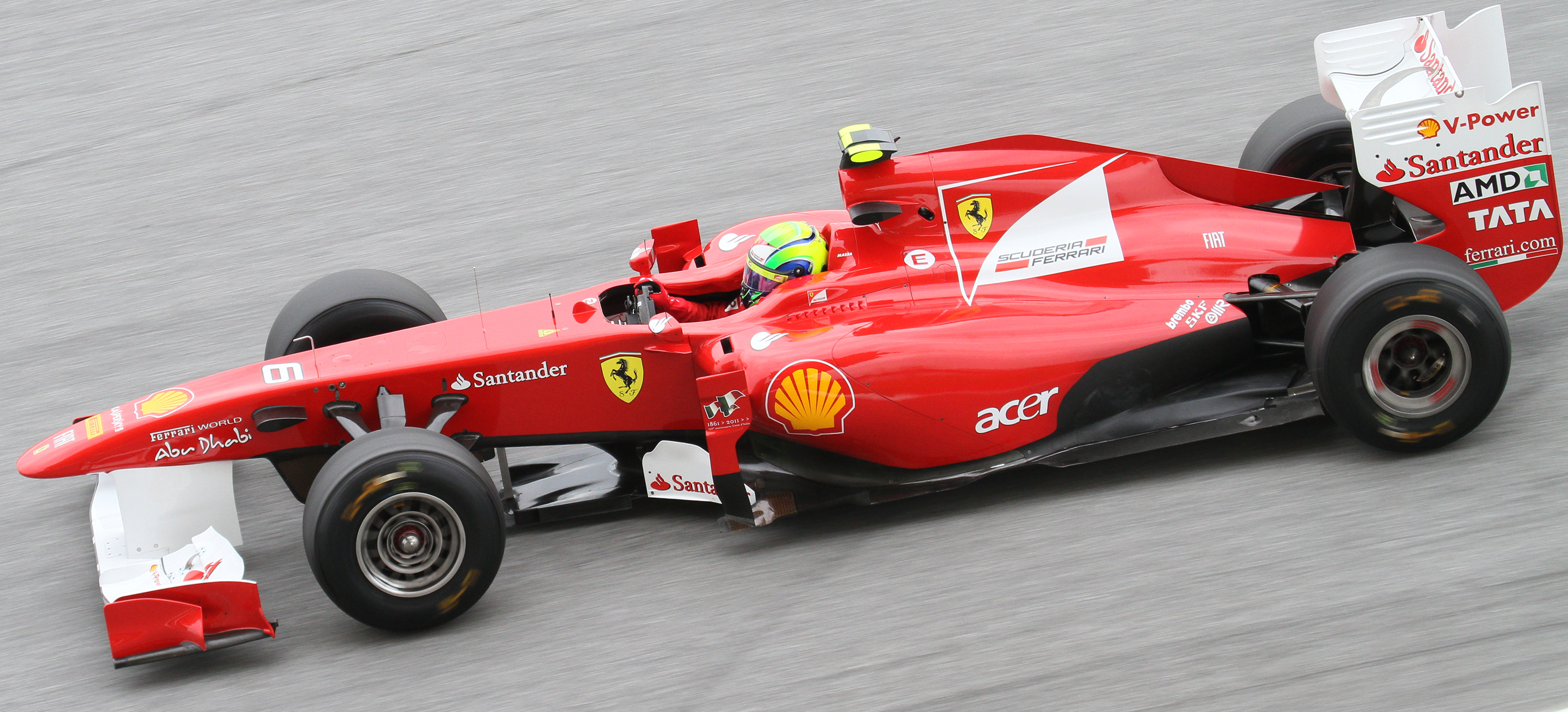 Formula One 2011 Rd.2 Malaysian GP: Felipe Massa (Ferrari) during the first practice session on Friday.